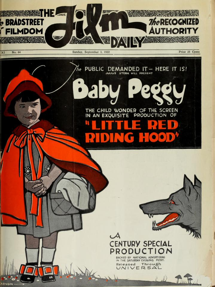 Cover of Film Daily, September 3, 1922, showing advertisement for Little Red Riding Hood (1922) staring Baby Peggy (Diana Serra Cary)